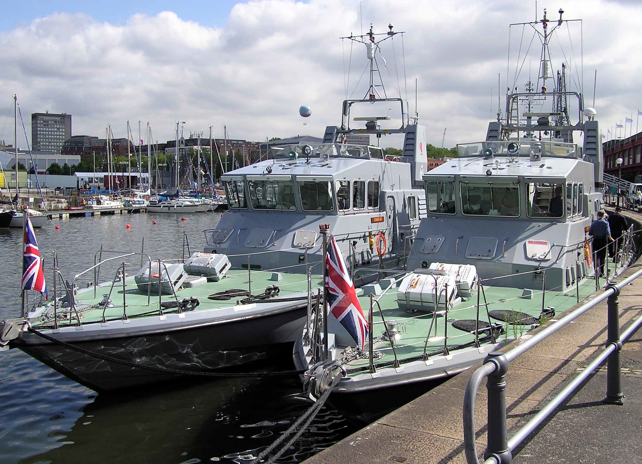 Two Archer class P2000 patrol boats of the University Royal Naval Unit in Bristol Harbour (England). The vessels peacetime role is to train students, from the University of Bristol and the University of Bath, in navigation and seamanship. P292 is HMS Charger (on the left), P294 is HMS Trumpeter. Length 20 metres. Powered by two 710 HP Rolls-Royce diesel engines. Top speed 21 kts (24.2 mph, 39 kph). In the background is a tethered balloon giving public rides.